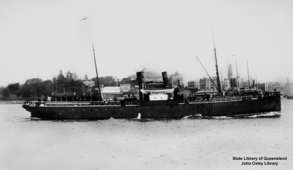 504 GRT steamship Allowrie, built in 1880 by Napier, Shanks and bell of Yoker, Glasgow for Illawarra SN Co. From 1904 owned bySN Illawarra and South Coast Co. Converted to a hulk in 1910.